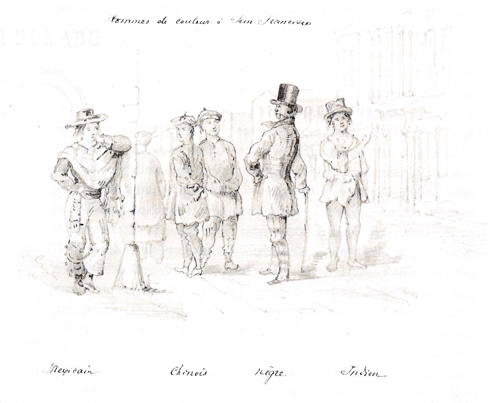 Population of San Francisco in the mid-19th Century - people of color. text in image (translated from the French): "Mexicans, Chinese, Negroes, Indians".